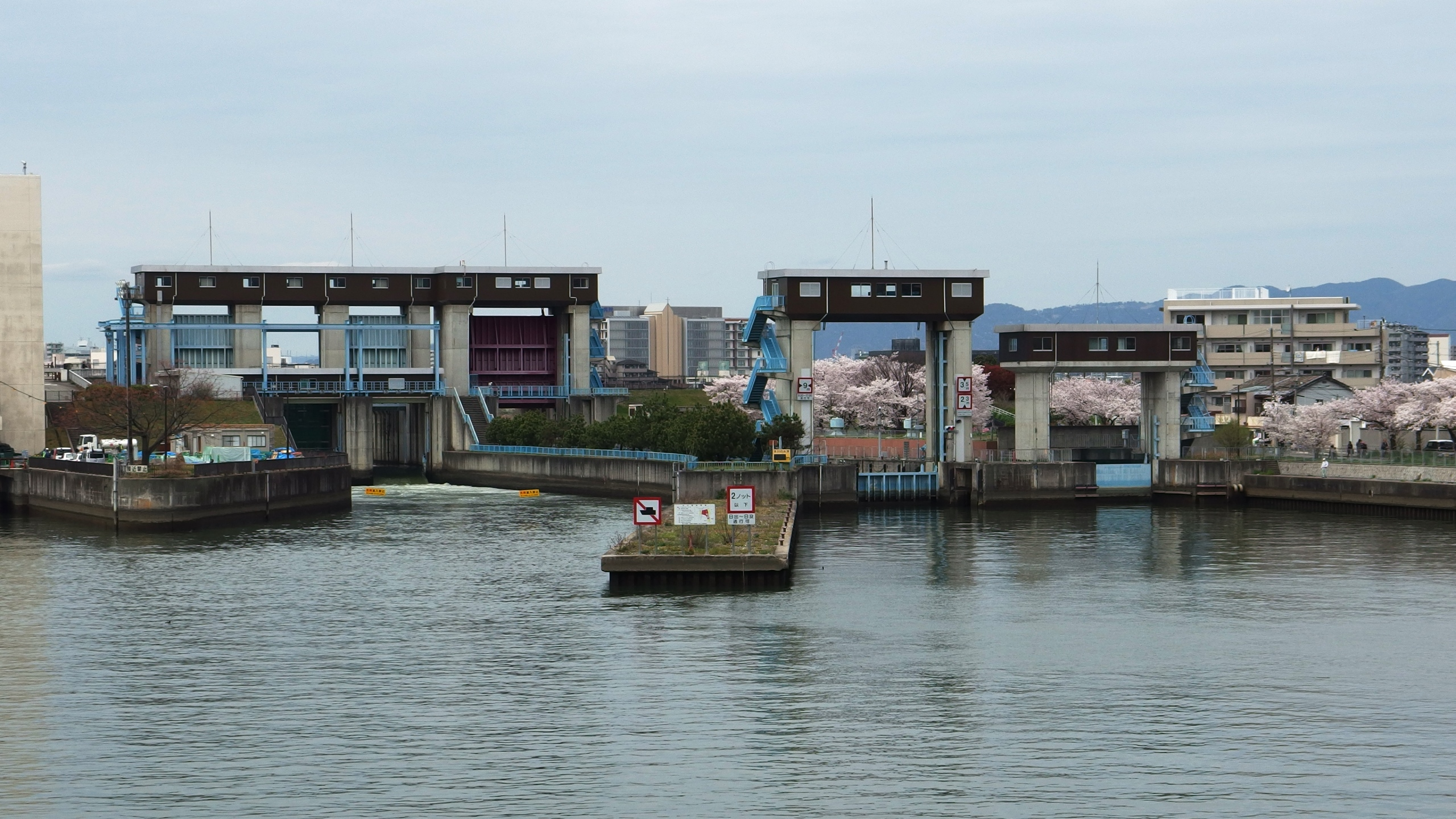 Kema Floodgate in Osaka, Osaka Prefecture, Japan